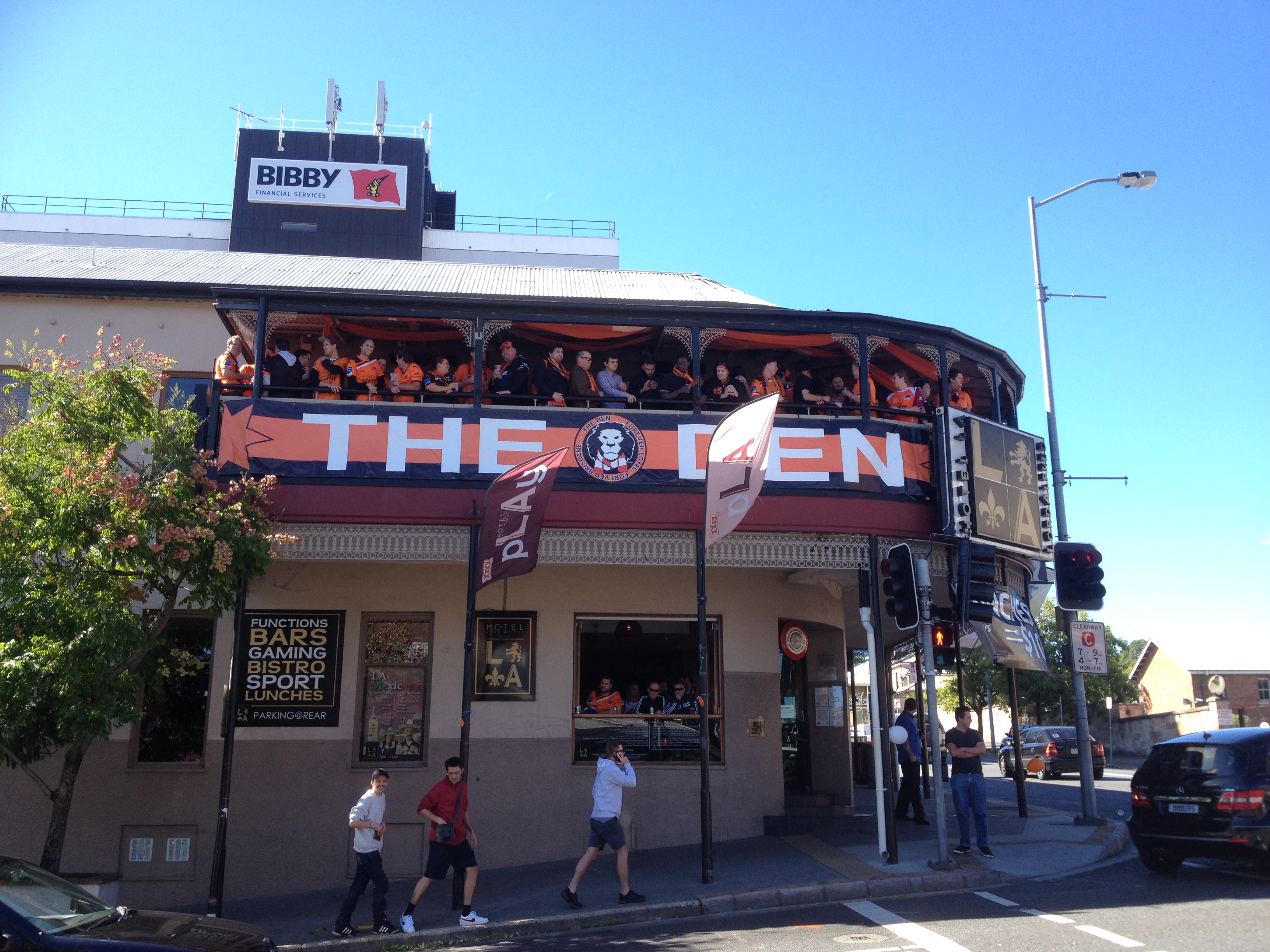 The Hotel LA (formerly the Lord Alfred Hotel) on Caxton Street, Brisbane